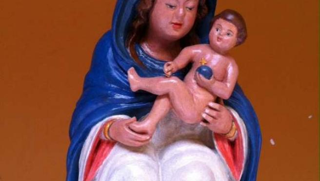 Religious image